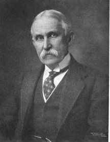 Photograph of Franklin MacVeagh, US Secretary of the Treasury, 1909-1913